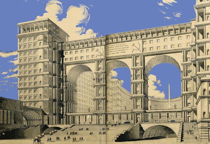 Narkomtiazhprom contest entry by Ivan Fomin